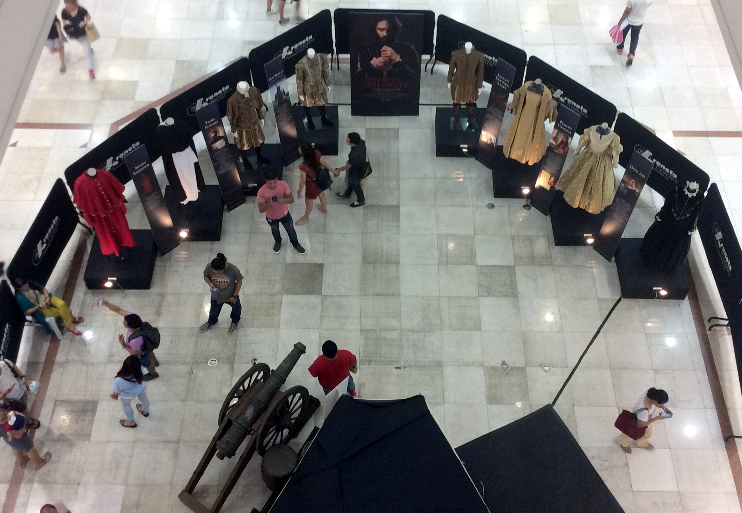 Exhibit dedicated for the film Ignacio de Loyola" at the Gateway Mall in Quezon City.